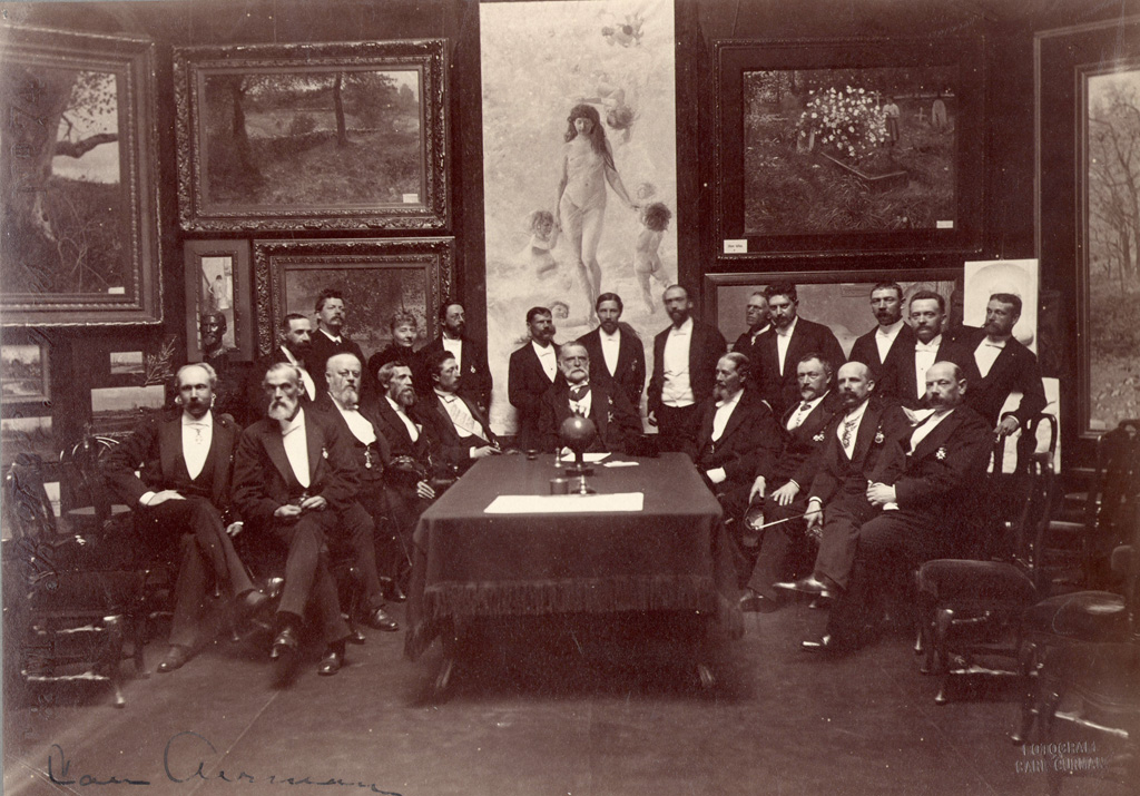 Last solemn day of the old Royal Swedish Academy of Fine Arts in its old building